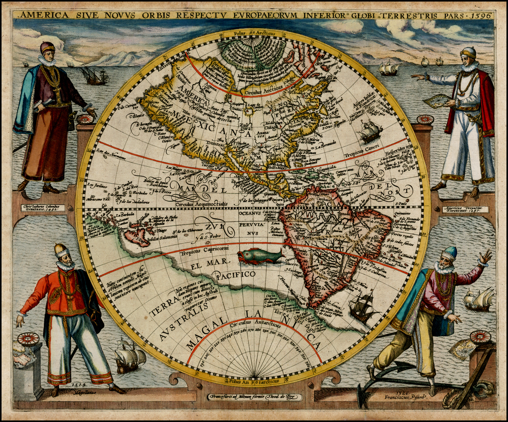 Map of America, or the New World, by Theodor de Bry (Flemish, 1528-1598). Titled "America Sive Novus Orbis Respectu Europaeorum Inferior Globi Terrestris Pars, and dated 1596. The four figures are, clockwise from top left, Christopher Columbus, Amerigo Vespucci, Francisco Pizzaro and Ferdinand Magellan.